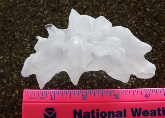 The record-setting hailstone that fell in Oahu during a severe thunderstorm on March 9, 2012. The hailstone measured 4.25 in long, 2.25 in tall and 2 in wide (10.8 cm by 5.7 cm by 5 cm).